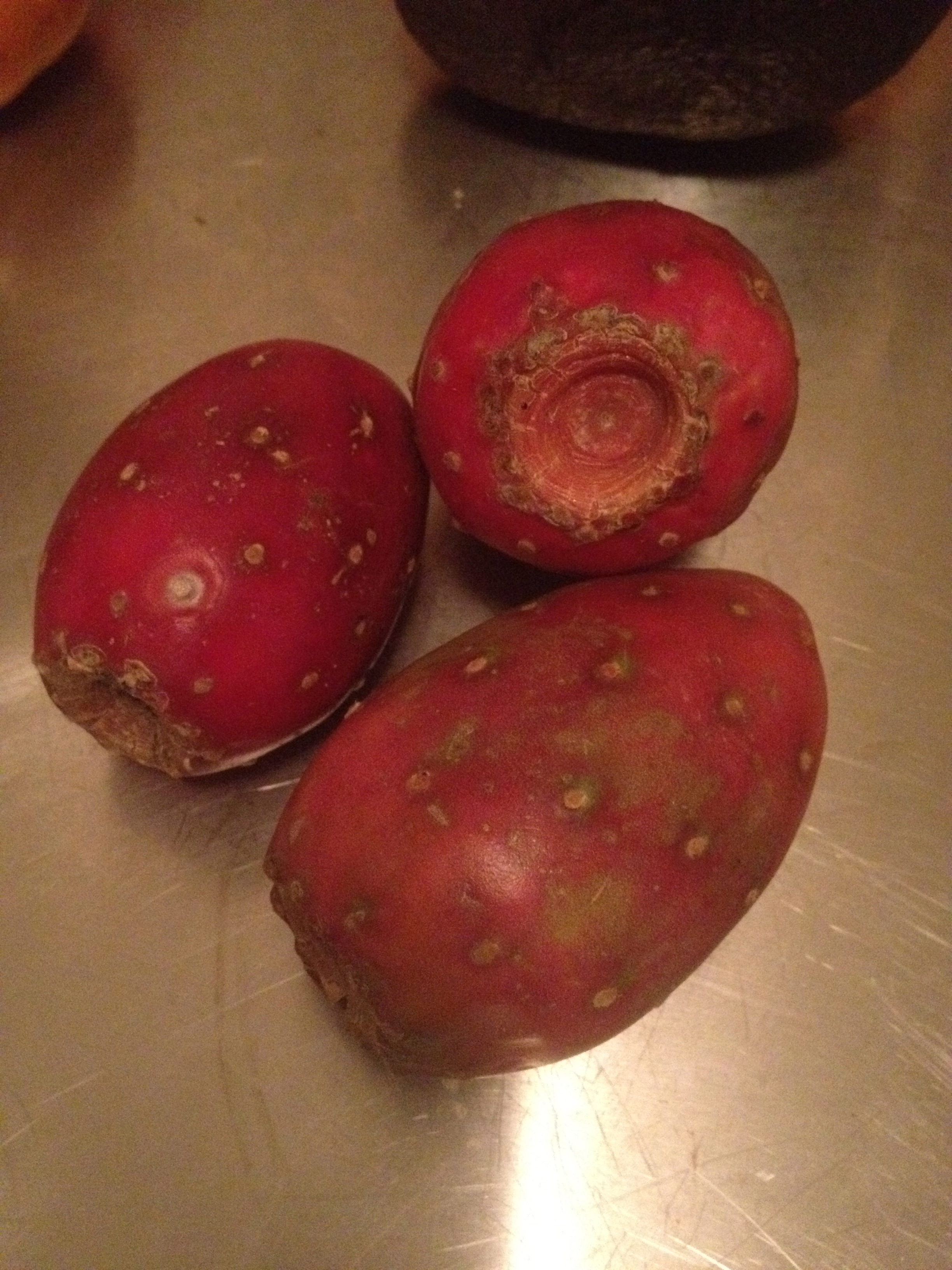 this is a cactus fruit bought from the San Francisco Civic Center Farmers' Market